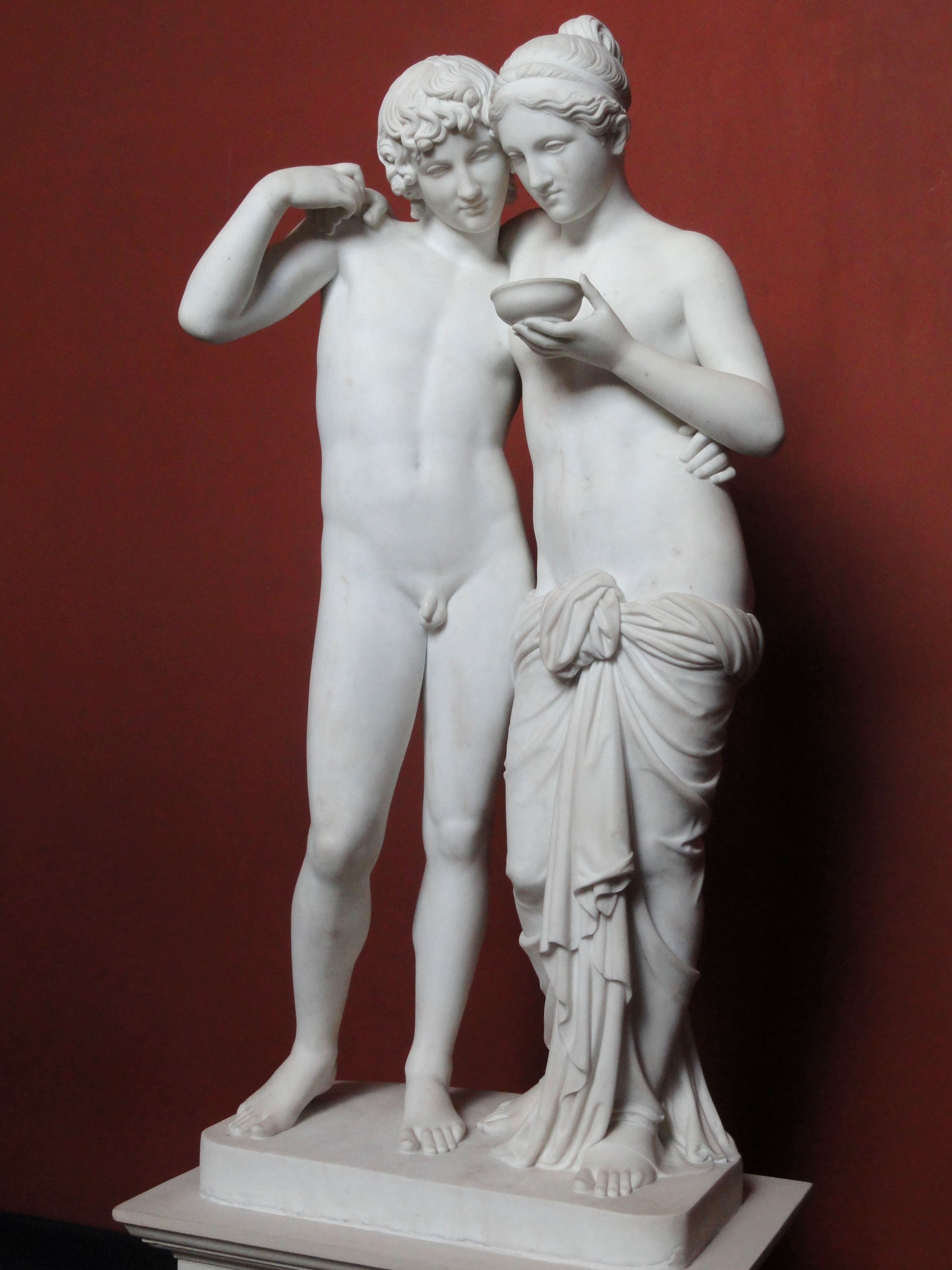 Sculpture in Thorvaldsens Museum, Copenhagen, Denmark. Sculptor: Bertel Thorvaldsen (c. 1770-1844). This artwork is now in the public domain because the artist died more than 70 years ago.